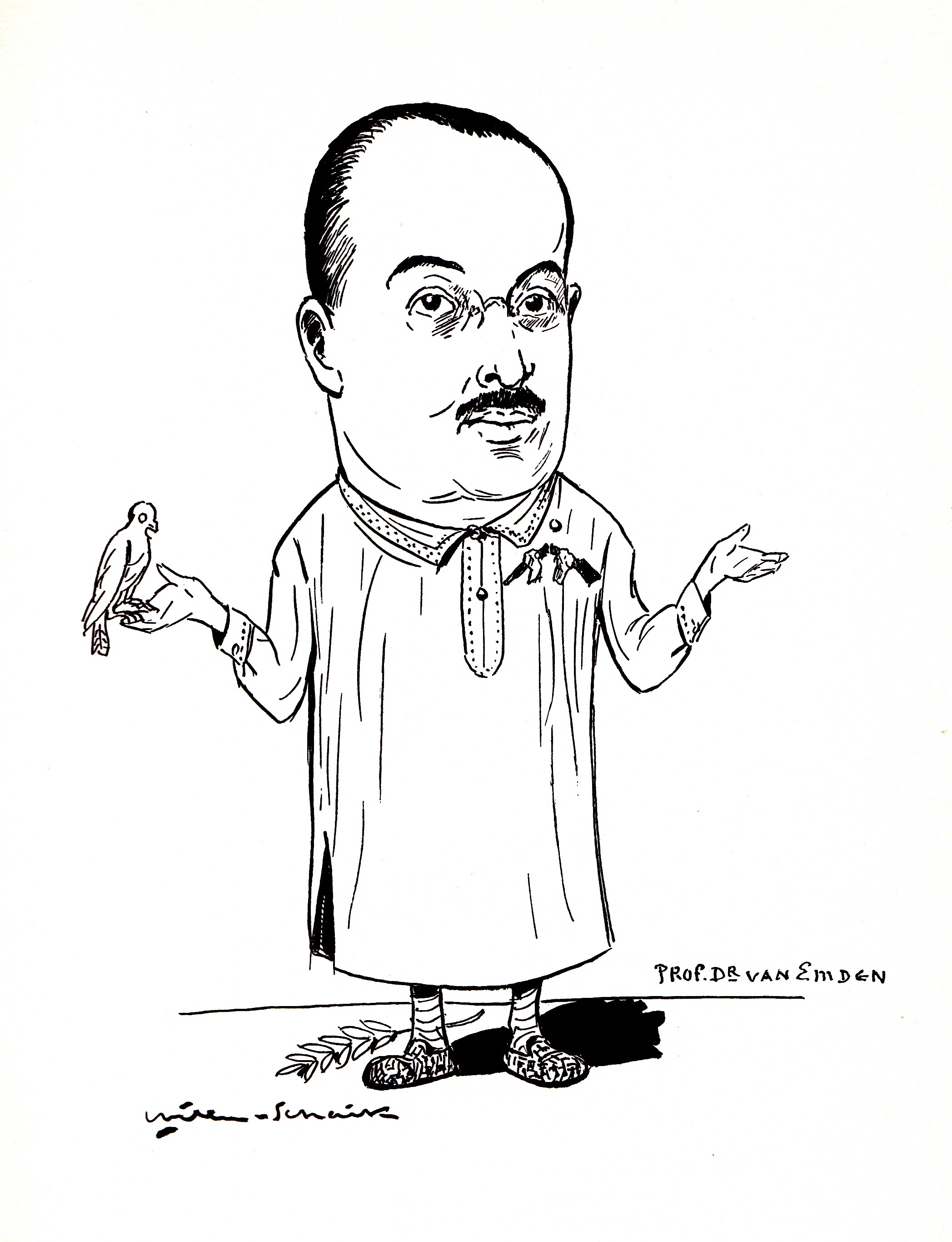 David van Embden. Sketch drawn by Willem van Schaik (1876-1938)